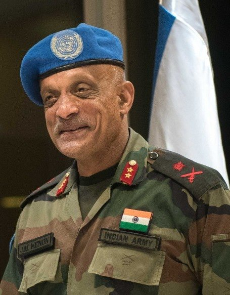 Today, Lt. Gen. Eisenkot thanked Maj. Gen. Jai Shanker Menon for cooperation as he completes his tenure as UNDOF Head of Mission and Force Commander.